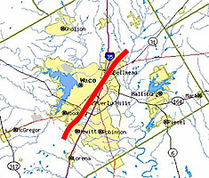 Tornado track map of Waco tornado (Courtesy of NWS Fort Worth).